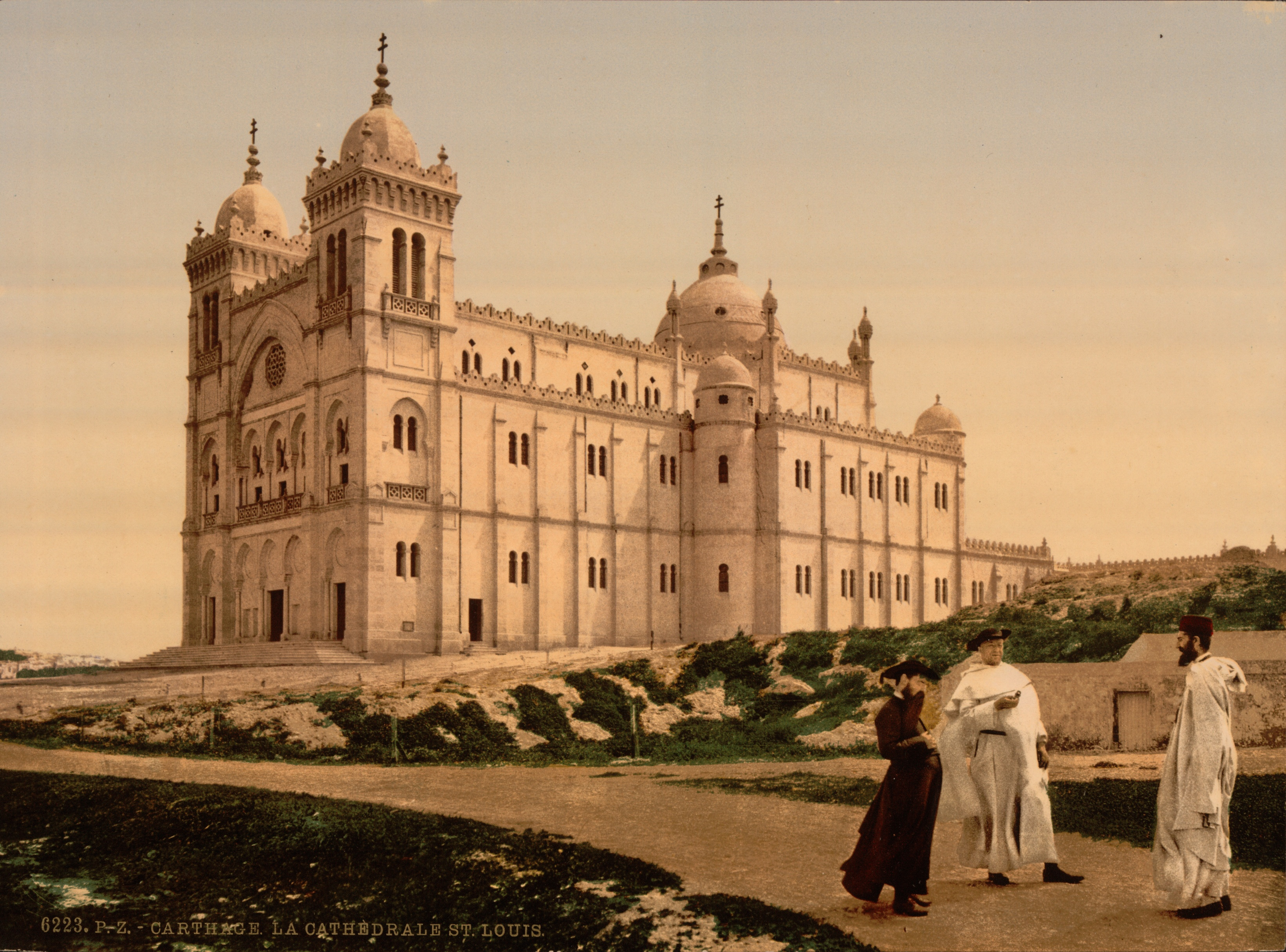 Photograph of the St Louis Cathedral of Carthage, Tunisia. This color photochrome print was taken in 1899 in Carthage, Tunisia.